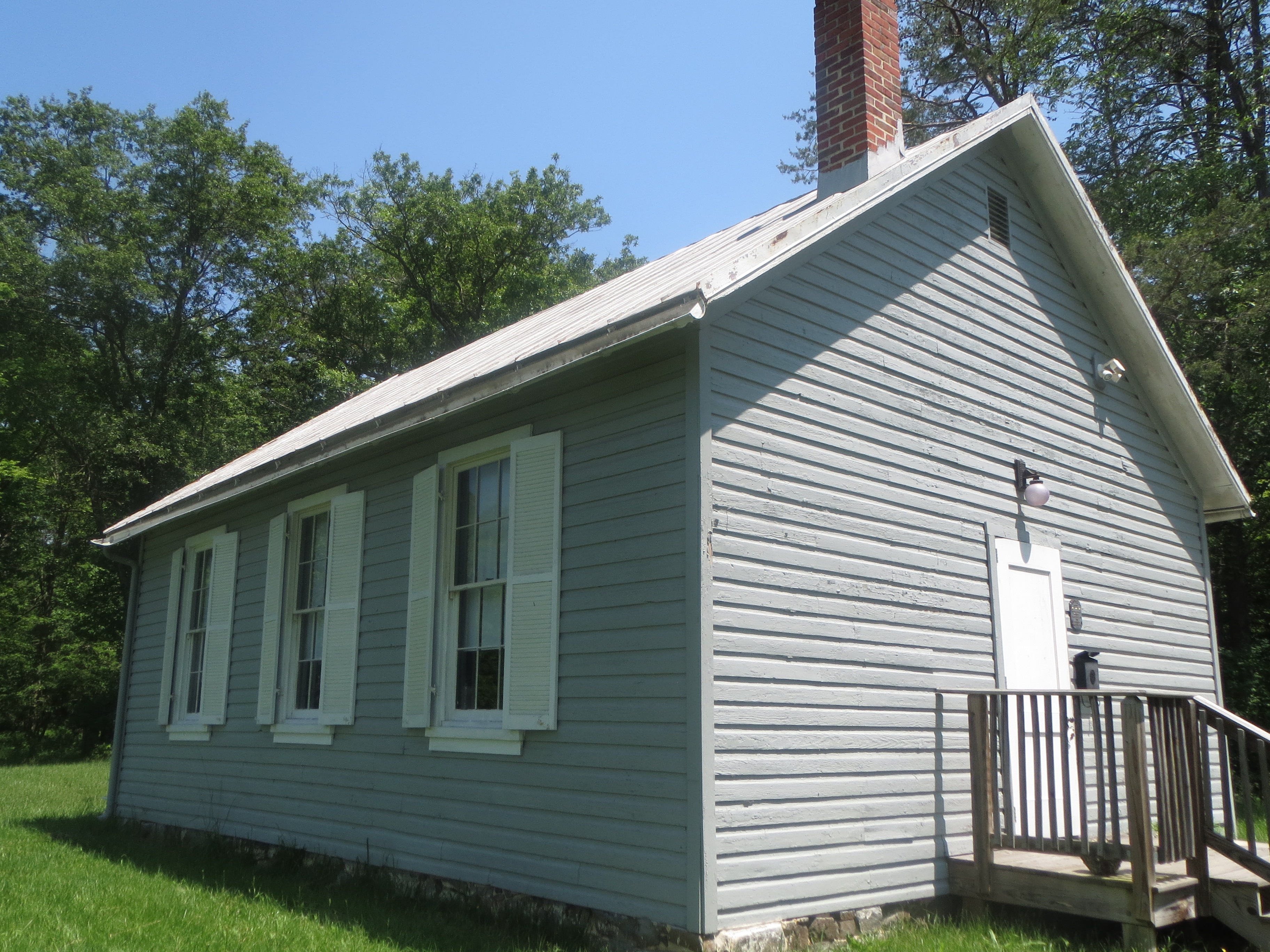 An image of Boyds Negro School. It was the only public school for the local Black community from 1896 to 1936. It was restored in 2008.